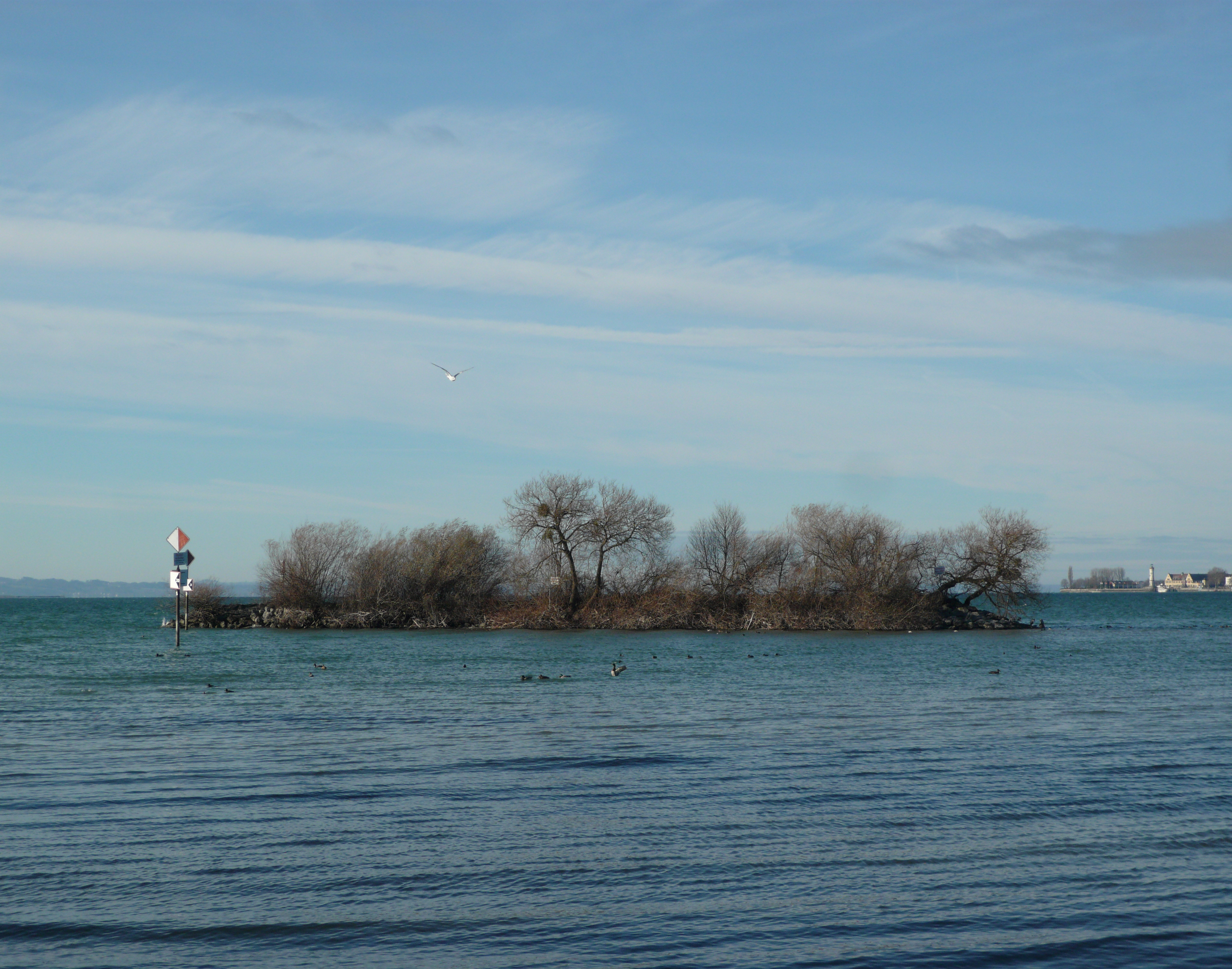 Vogelinsel (bird island), an island in Lake Constance near Lindau-Zech.